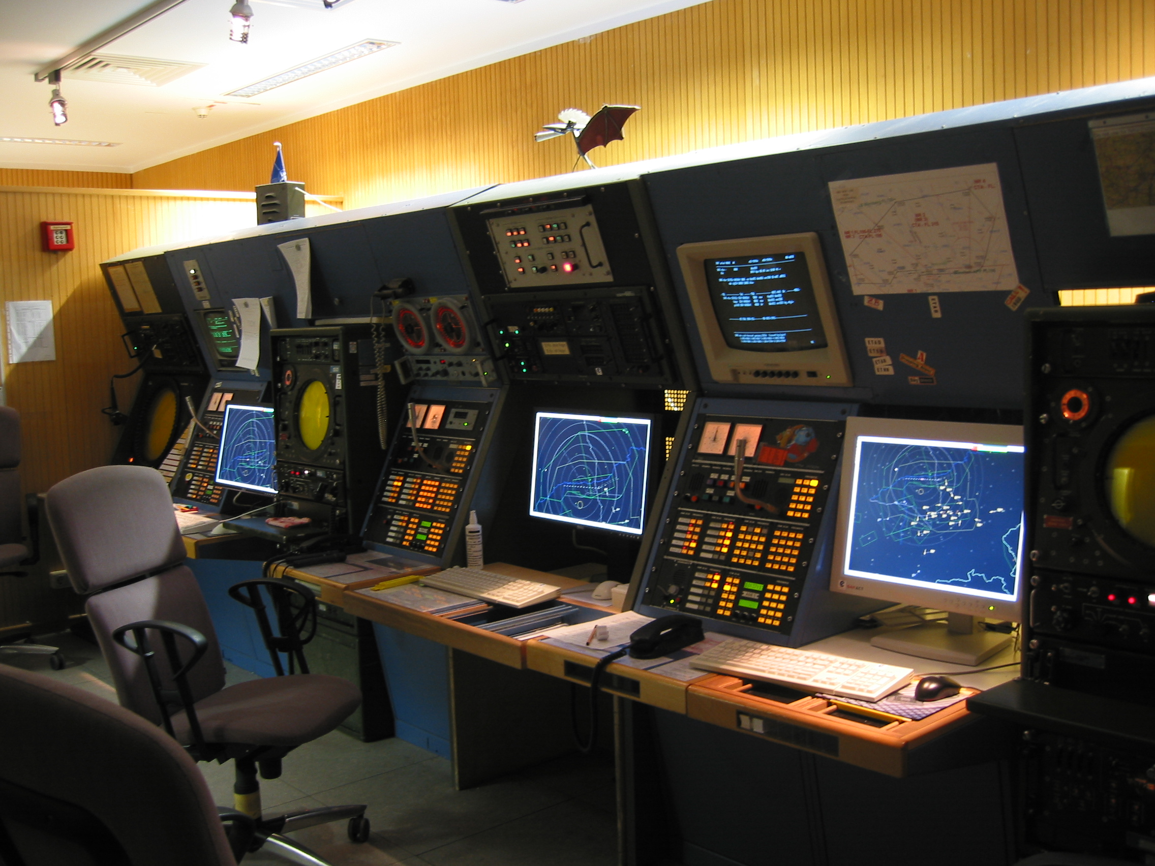 CIMACT-support in a NATO-assigned air forc unit, ATC-area Radar Approach (APP)